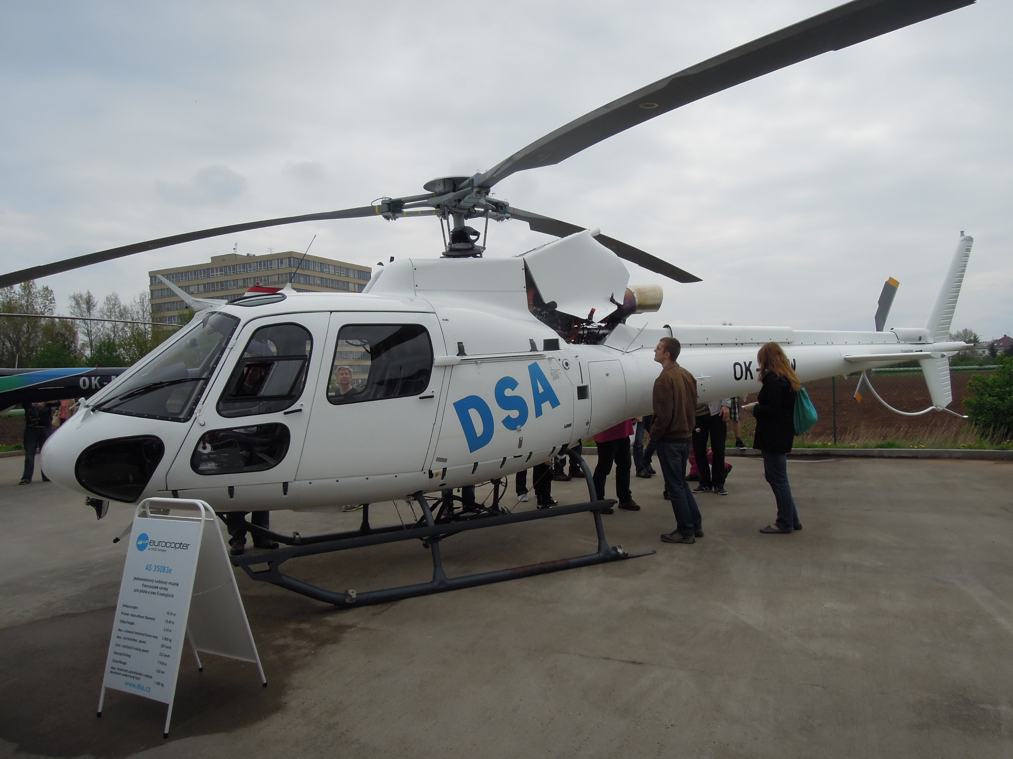 Helicopter Eurocopter AS350B3 Ecureuil of DSA company, Czech Republic